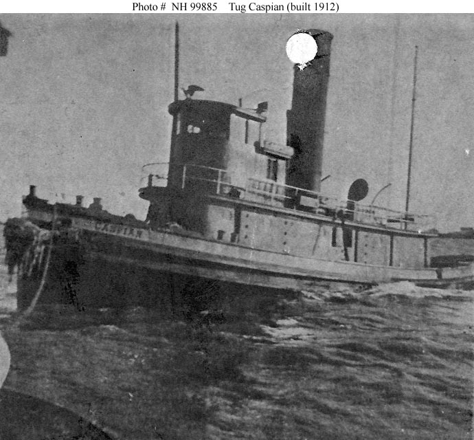 Harbor tug SS Caspian, considered for World War I United States Navy service as USS Caspian (ID-1380) but never acquired or commissioned by the Navy